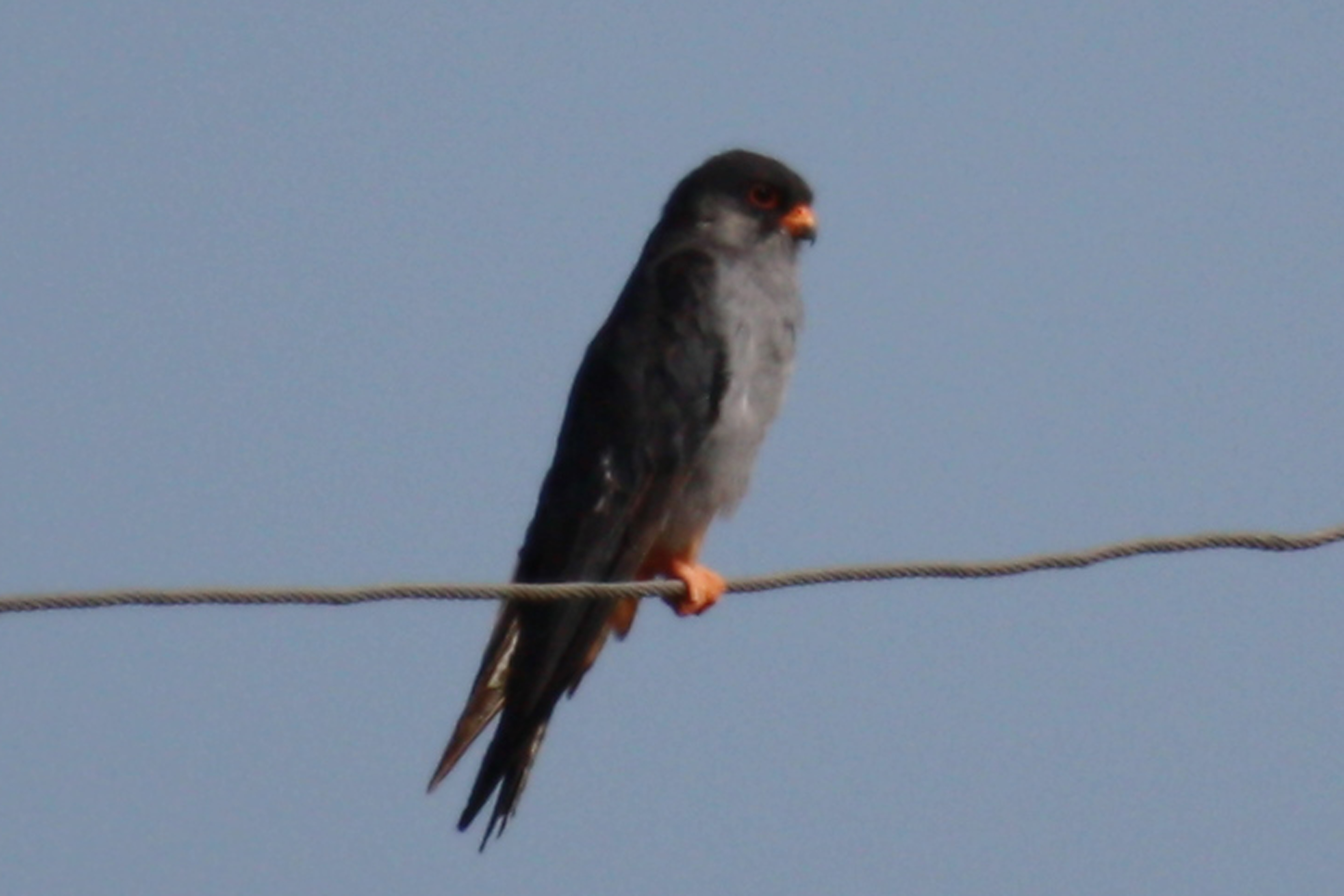 An Amur Falcon in Mongolia.